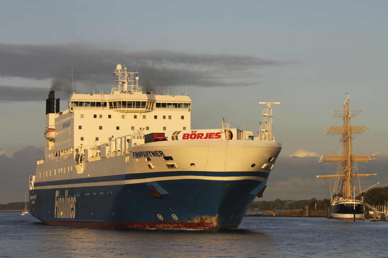 M/S Finnpartner at Travemünde.